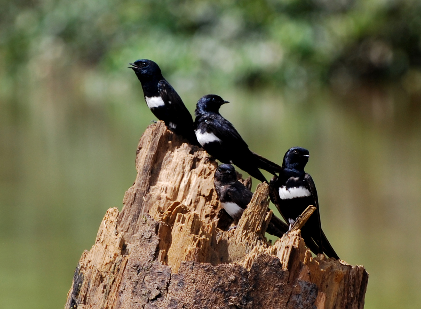 White-banded Swallows Atticora fasciata perching of a tree stump on the bank of Rio Tiputini, Yasuni National Park, Ecuador.